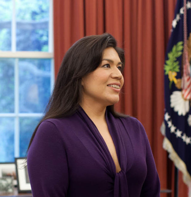 President Barack Obama talks with Kim Teehee, Senior Policy Advisor for Native American Affairs, in the Oval Office, April 26, 2012. (Official White House Photo by Pete Souza)